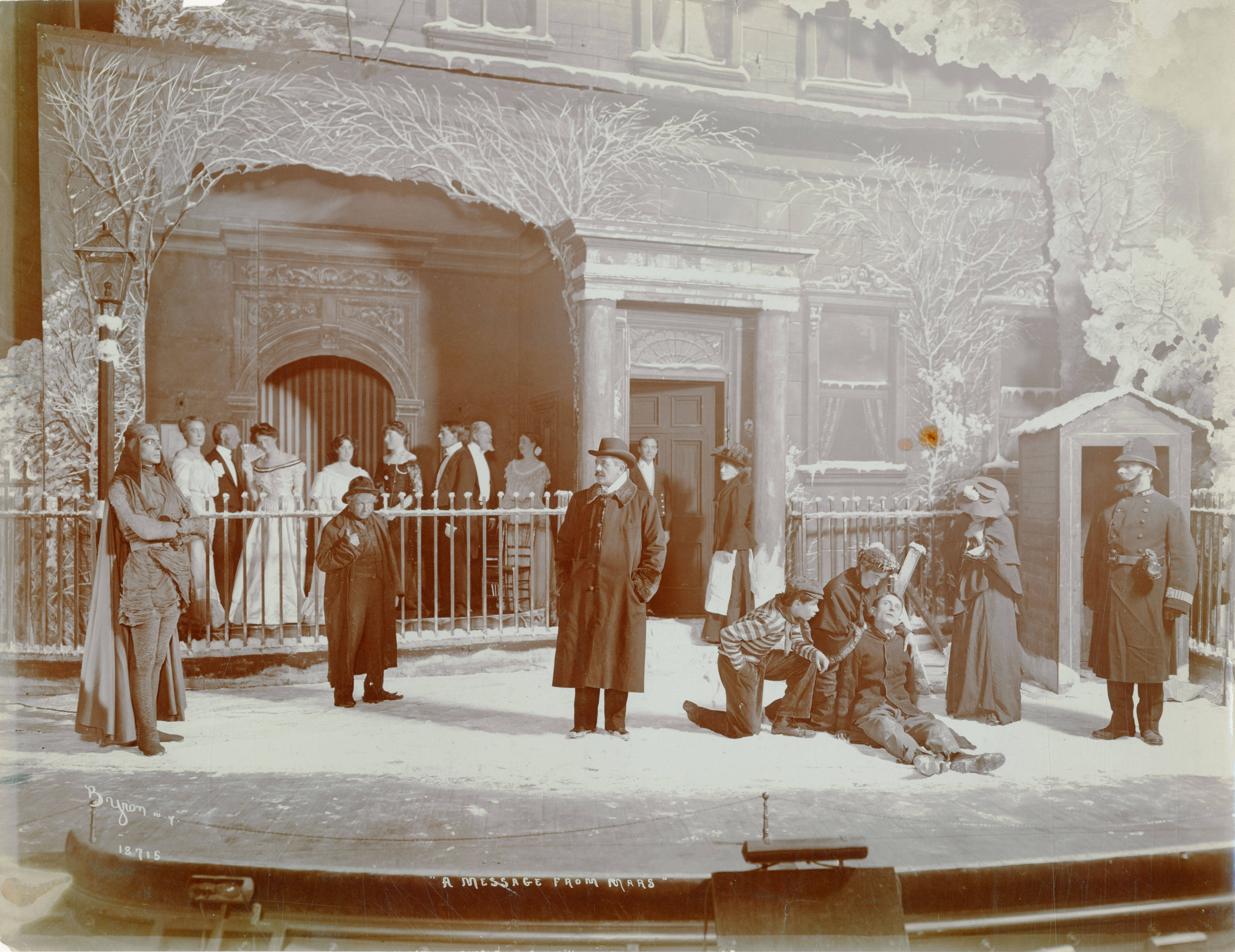 A scene from "A Message From Mars," which opened May 30, 1906, at the Moore Theater. Subjects: plays